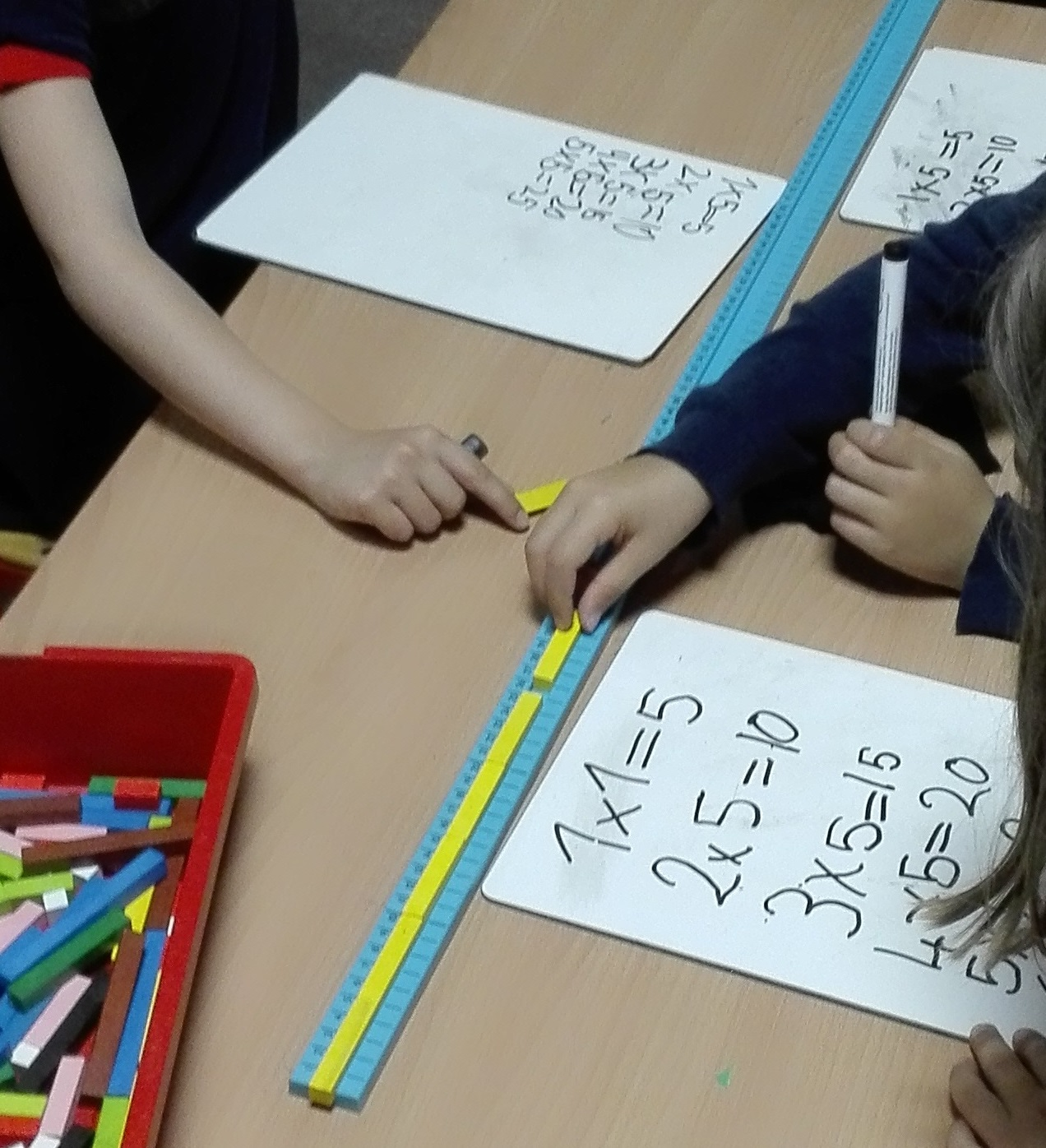 Children using a number track and adding repeated yellow rods to explore multiples of 5.